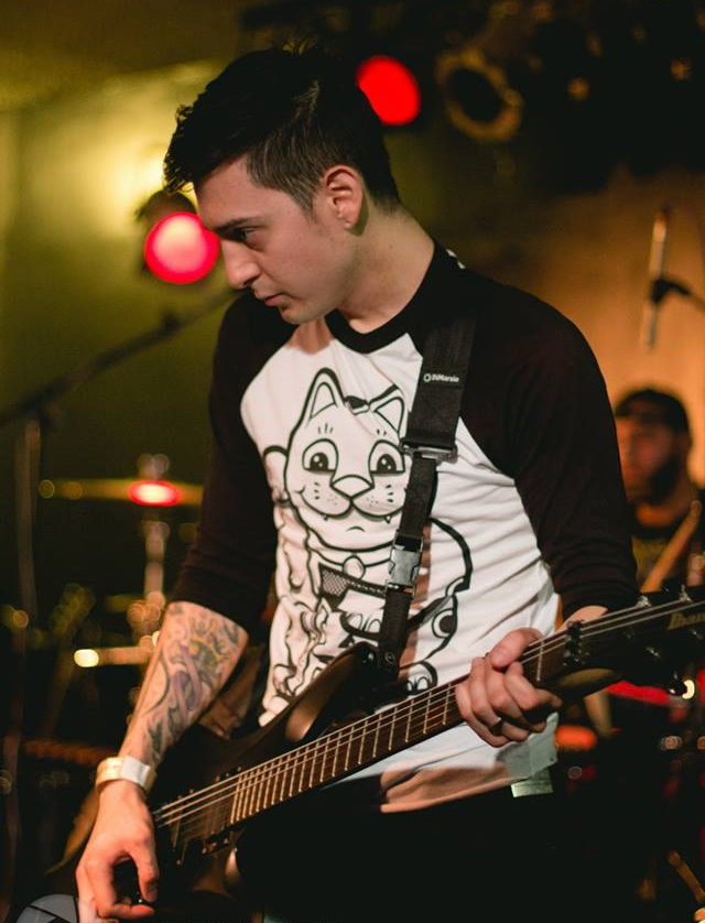 AlexTorresPerformingliveat2014